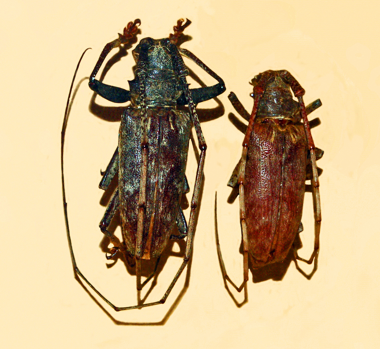 Acalolepta australis from New Guinea. Male and female